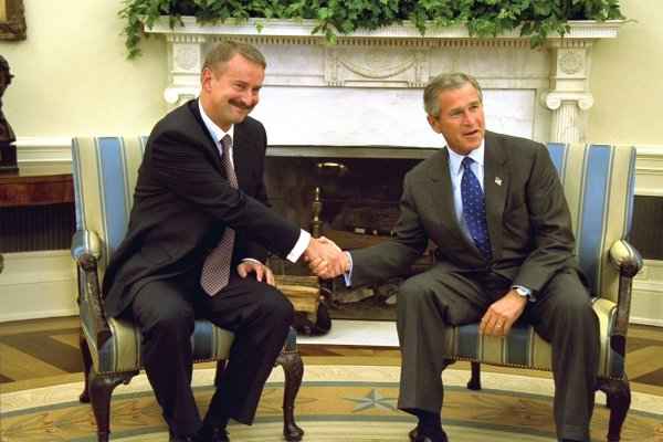 Estonian prime minister Siim Kallas meeting with United States President George W. Bush at the White House.